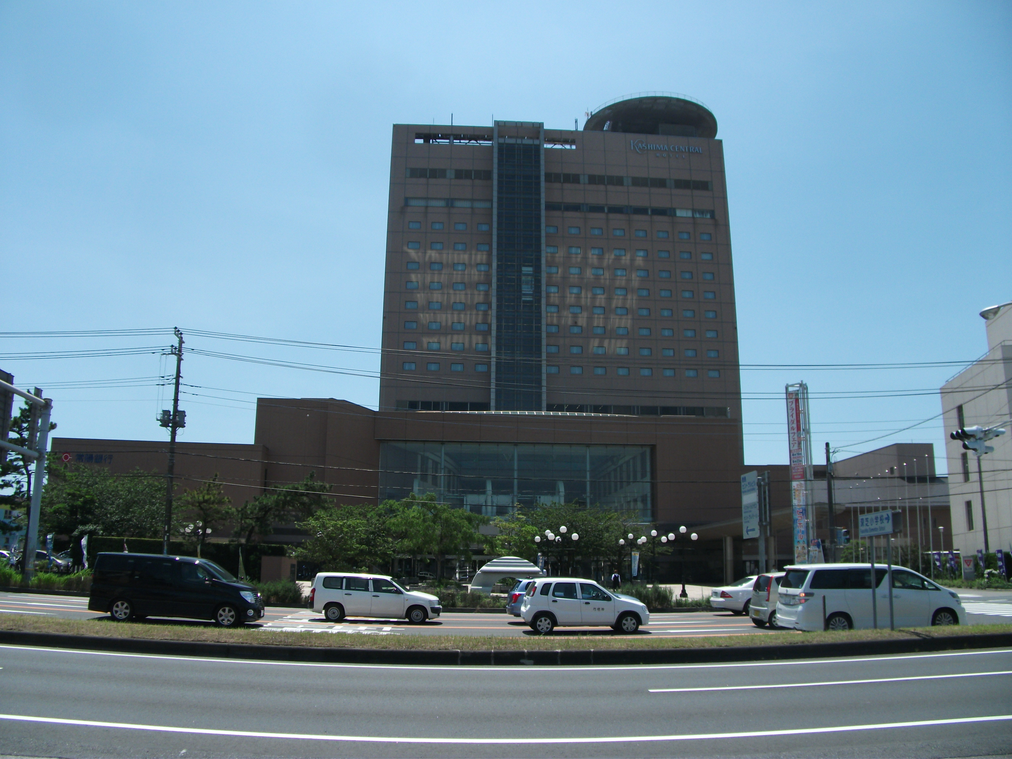 Kashima Central Hotel new wing in Kamisu City, Ibaraki Prefecture, Japan